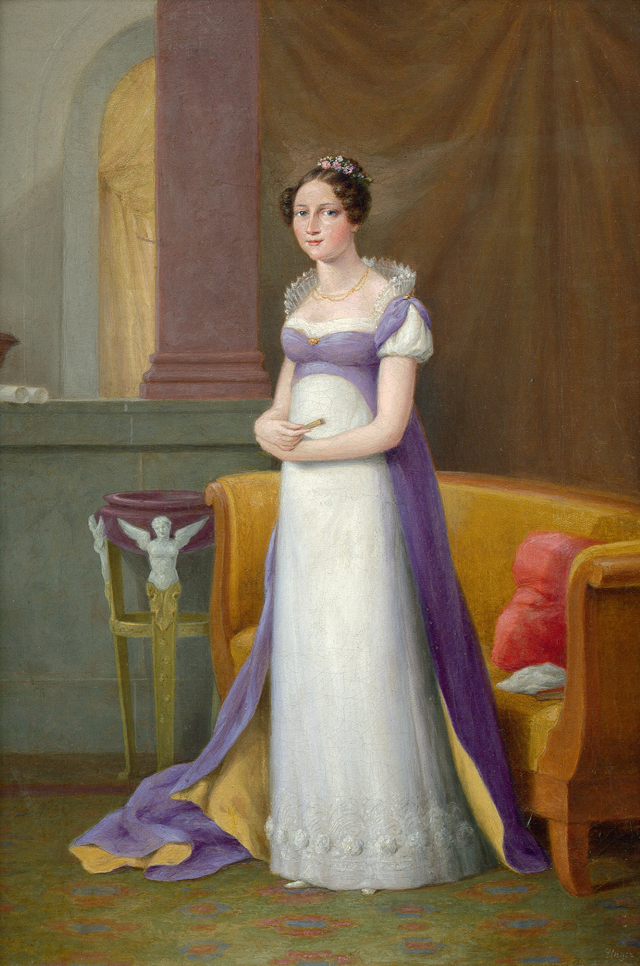 Grand Duchess Marie of Mecklenburg-Strelitz, née Princess Marie of Hesse-Kassel